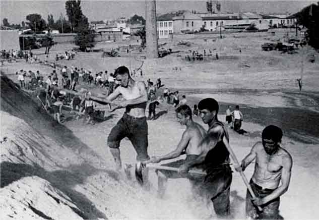 Building of lake of a name of Komsomol in Tashkent